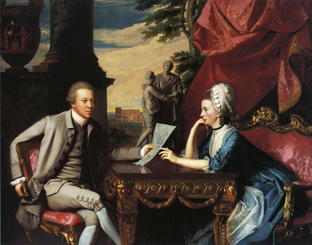 "Mr. and Mrs. Ralph Izard (Alice Delancey)," oil on canvas, by the American painter John Singleton Copley. 69 in. x 88.5 in. Courtesy of the Museum of Fine Arts. Image courtesy of The Athenaeum.